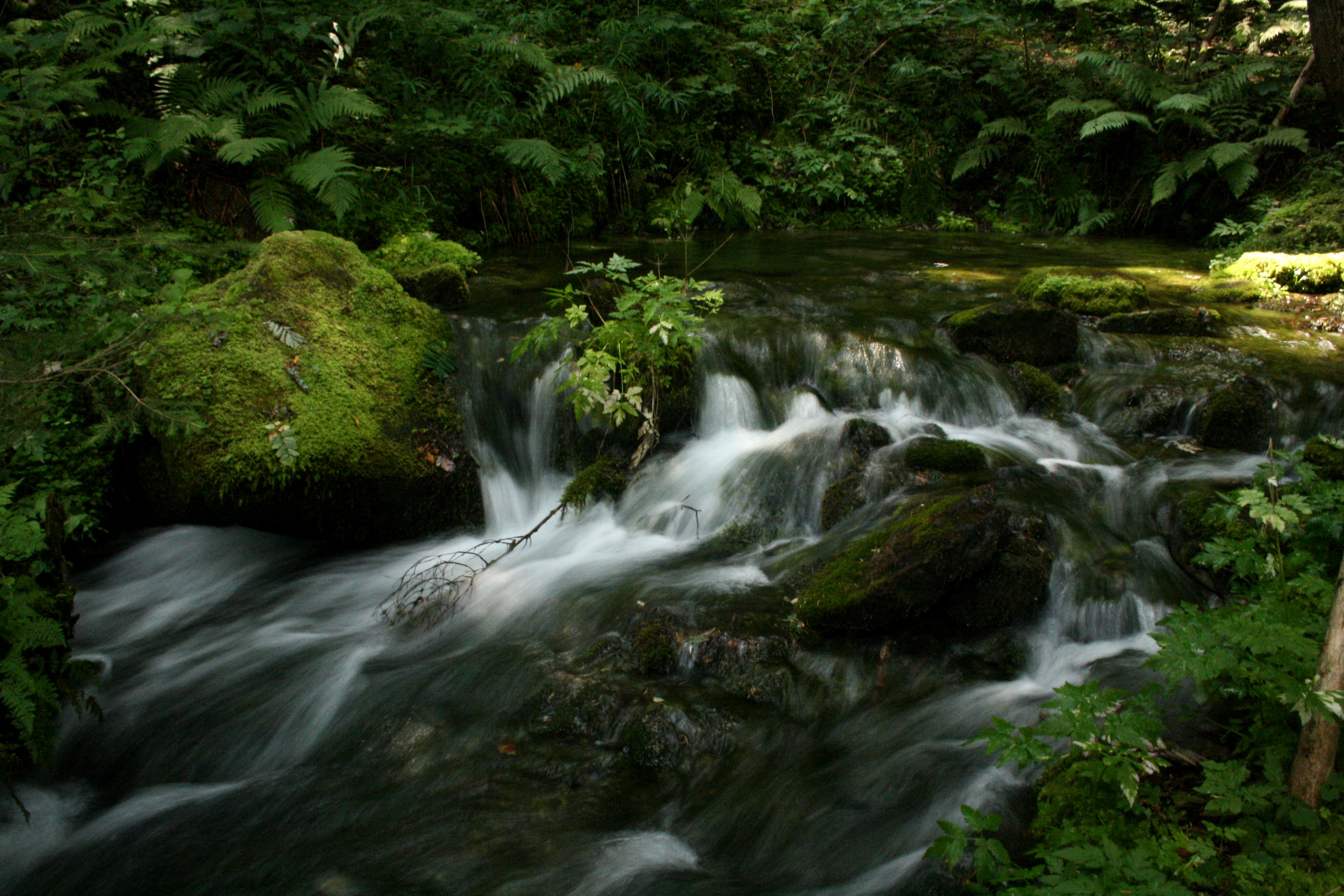 "Pöllauer Ursprung", a source in Pöllau, Sankt Marein bei Neumarkt, Styria, Austria, Europe